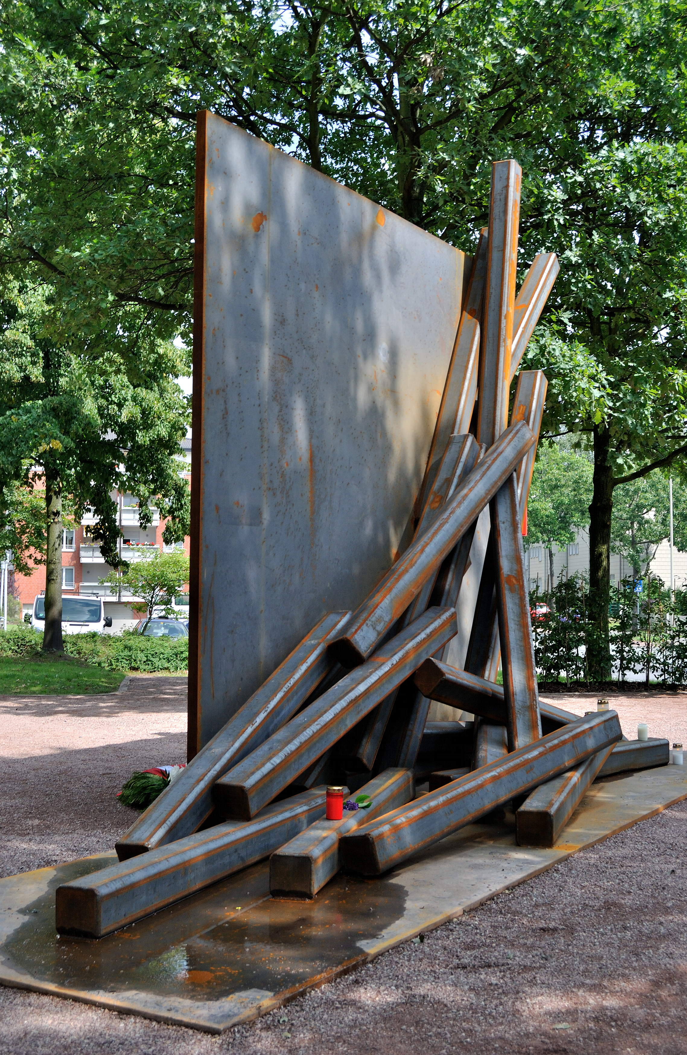 Duisburg (North Rhine-Westphalia, Germany) – monument to the Love Parade stampedeThis photograph was taken with a Nikon D3000